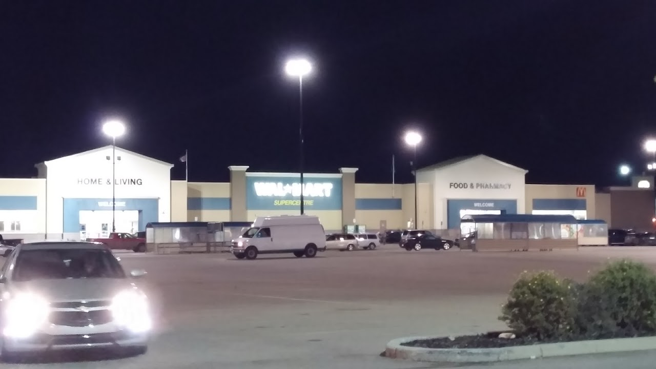 Walmart in Fort Saskatchewan, Alberta, with the old design